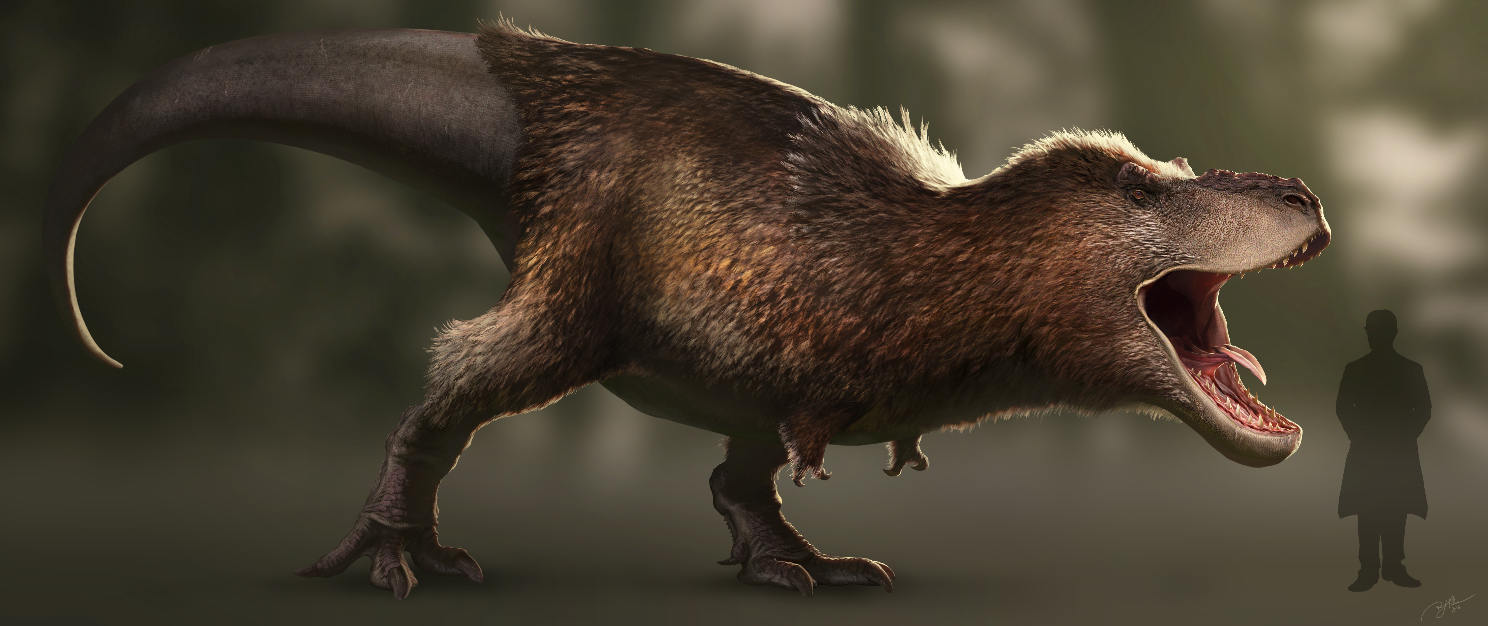 Life restoration of a feathered Tyrannosaurus rex.